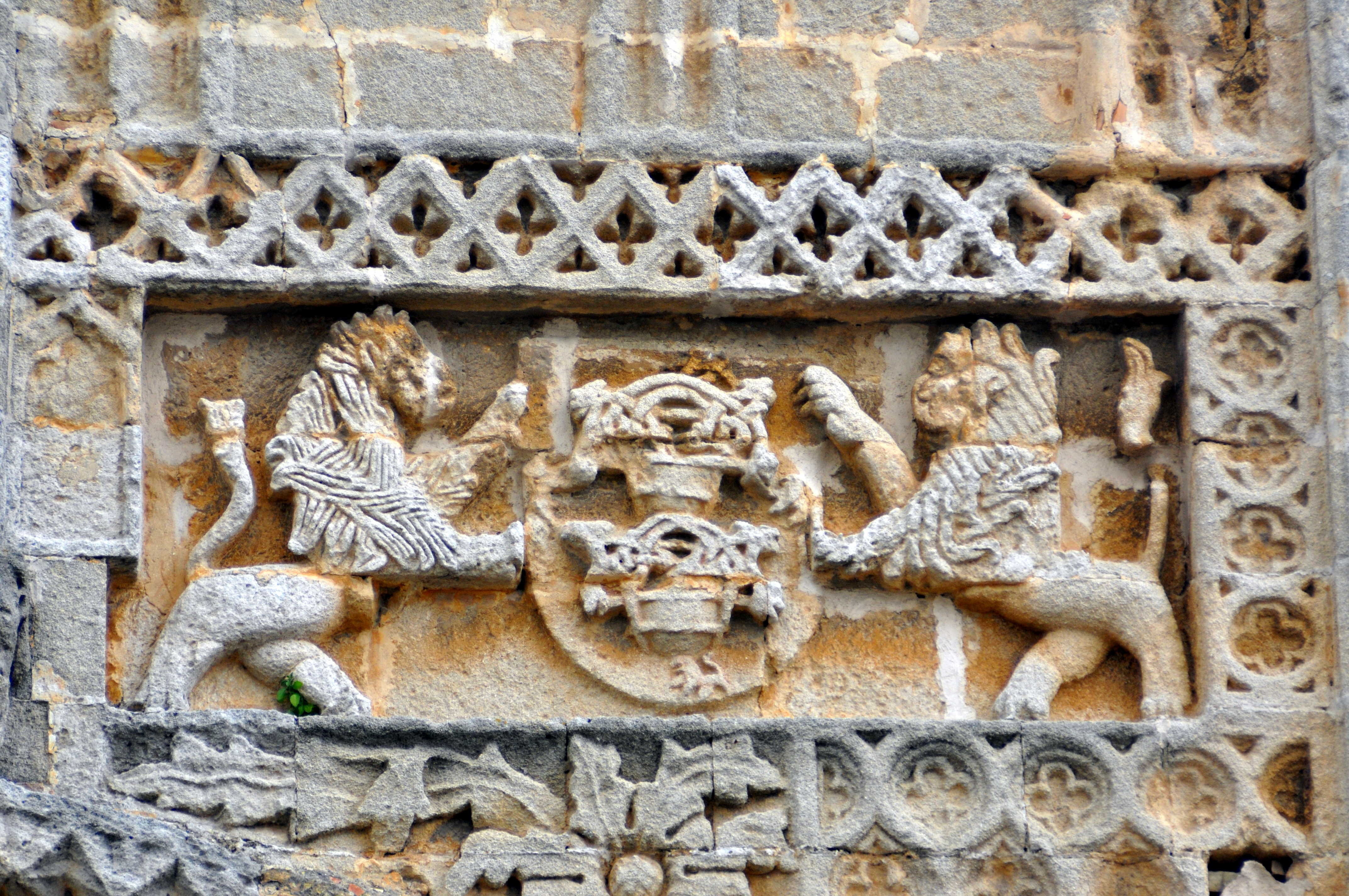 Coat of arms of the House of Guzmán or Medina-Sidonia. Church of Our Lady of the O. Sanlúcar de Barrameda, Cádiz, Spain.